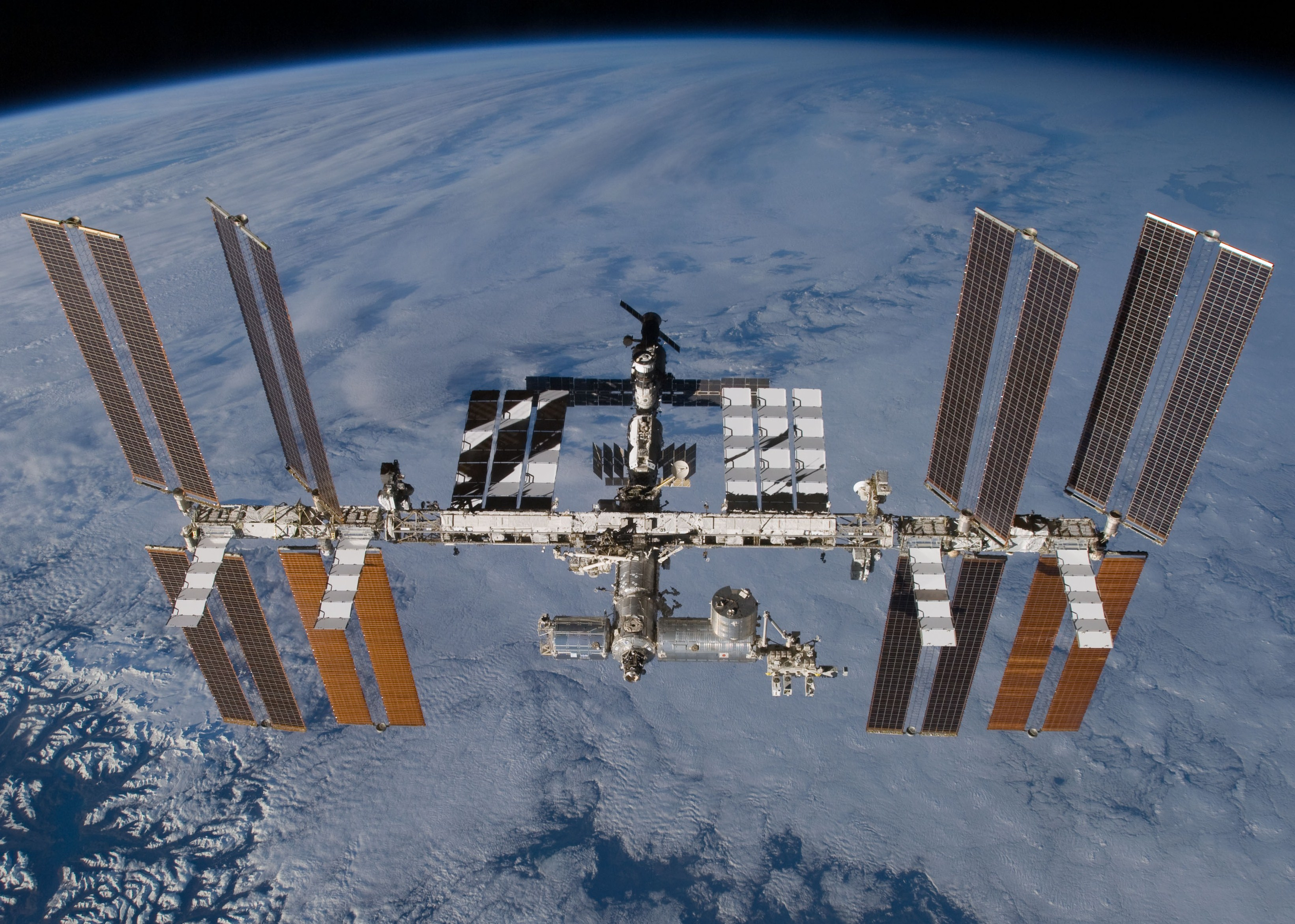 The International Space Station as seen in its ULF3 configuration by the departing Space Shuttle Atlantis, following the departure of STS-129, which delivered ExPRESS Logistics Carriers 1 & 2 to the orbital outpost. The newly-arrived Russian Poisk module is also visible.